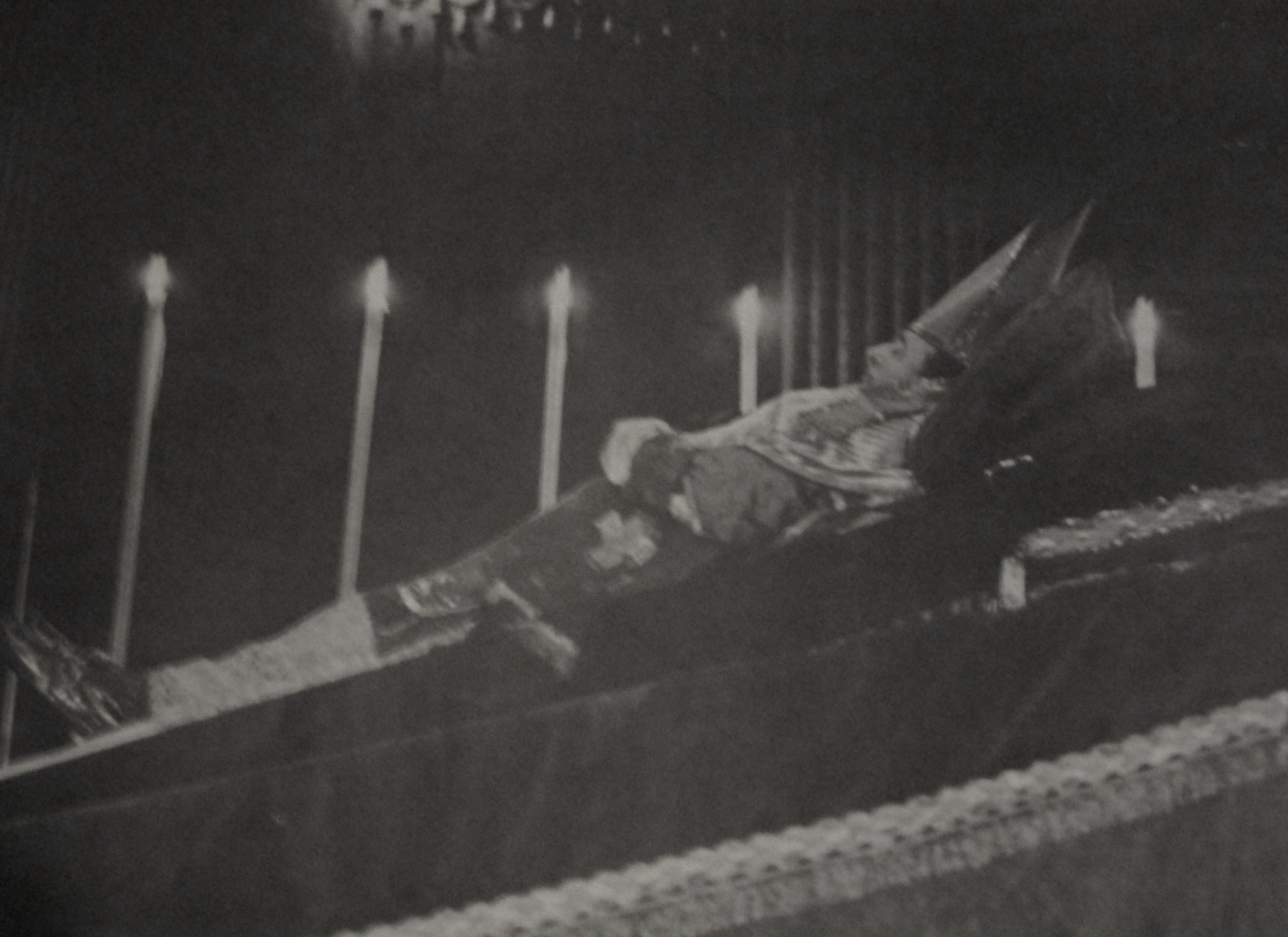 Pope Pius XI's body during his funeral in Rome.